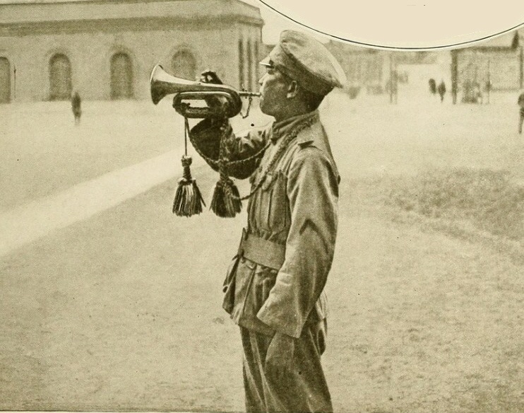 “A Siamese cantonment in the armory of St. Charles” - from the book Fighting America's fight.